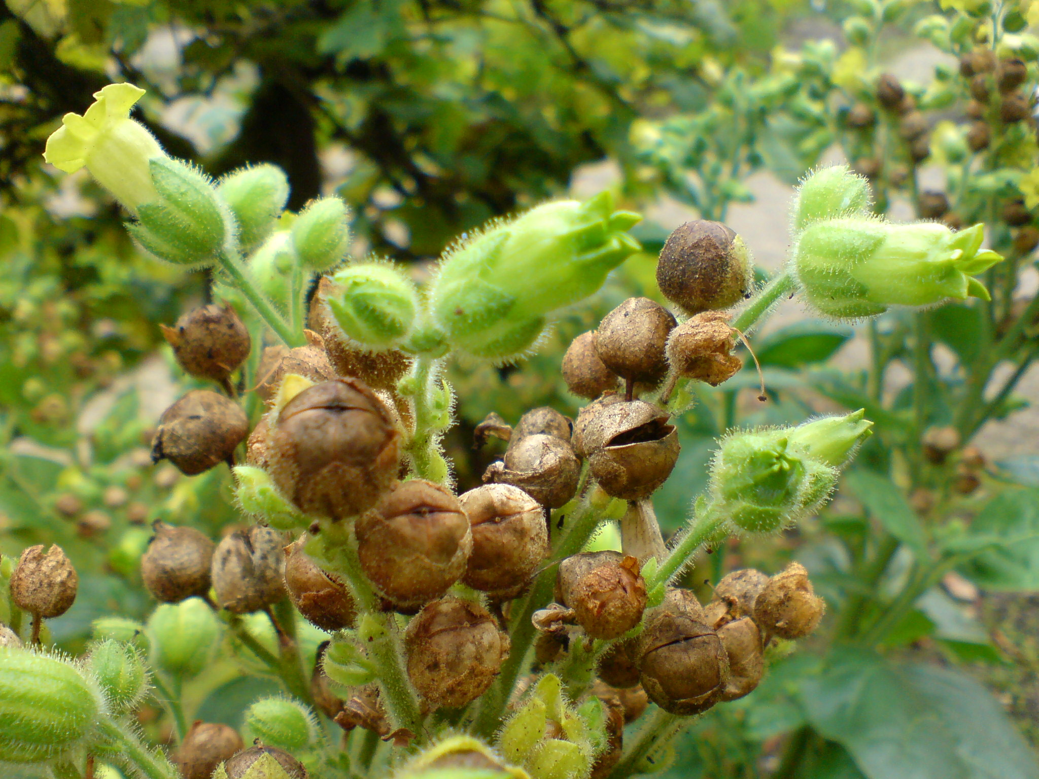 Nicotiana rustica - Botanical Garden Bremen